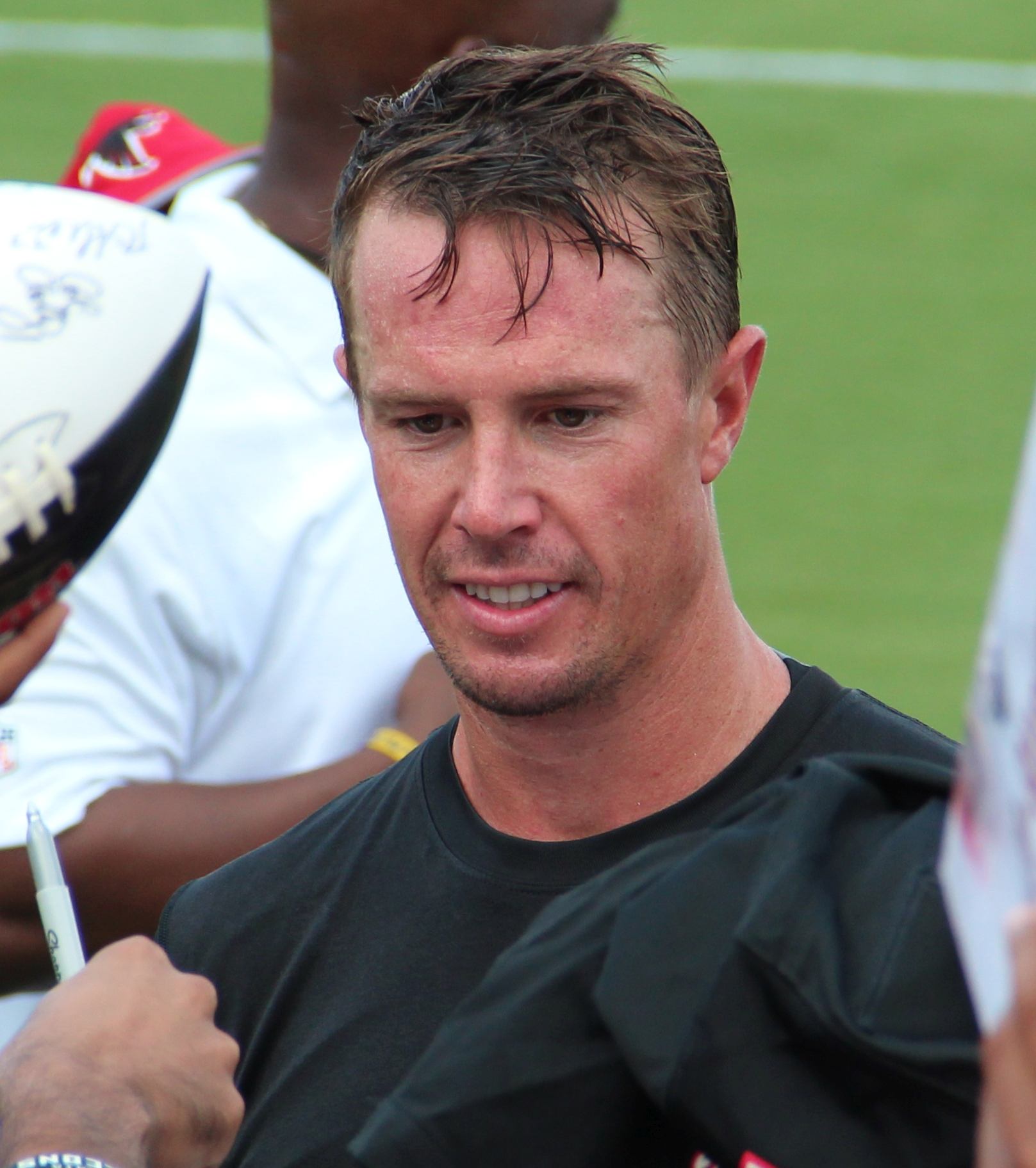 Matt Ryan at Falcons training camp, 2016